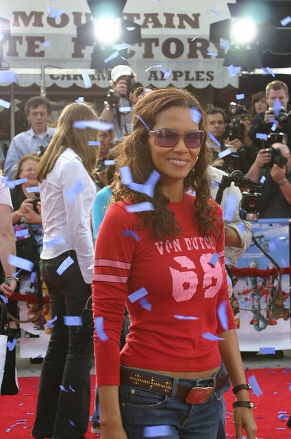 Halle Berry on the red carpetRobots movie